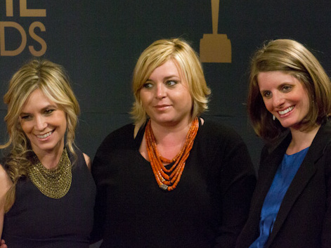 Rayisa Kondracki, Larysa Kondracki, Christina Piovesan, Genie Awards 2012